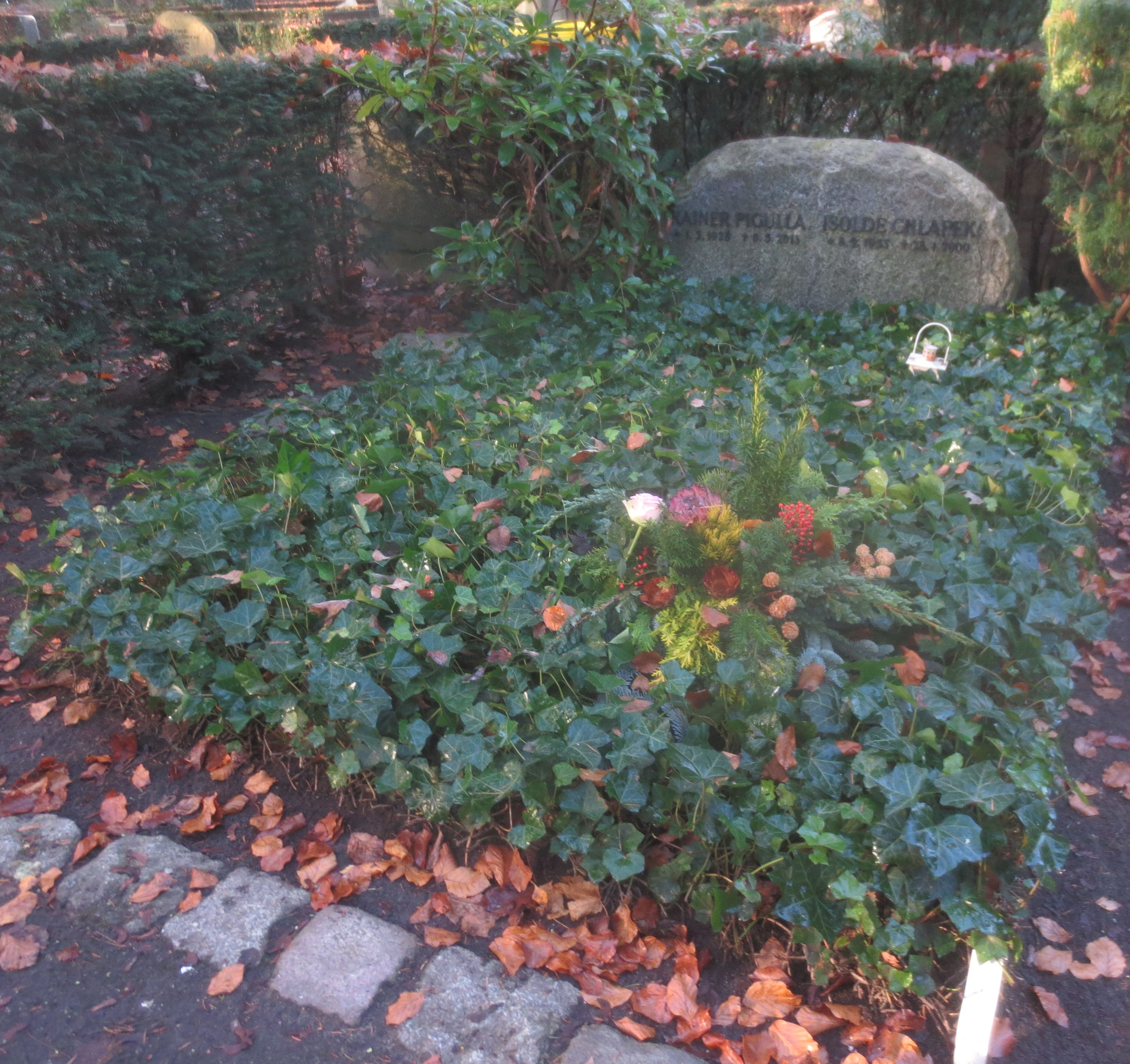 Grave of the actor and voice actor Rainer Pigulla (1928-2013) on the Friedhof Heerstraße cemetery in Berlin-Westend.